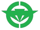 Kasagi Kyoto chapter